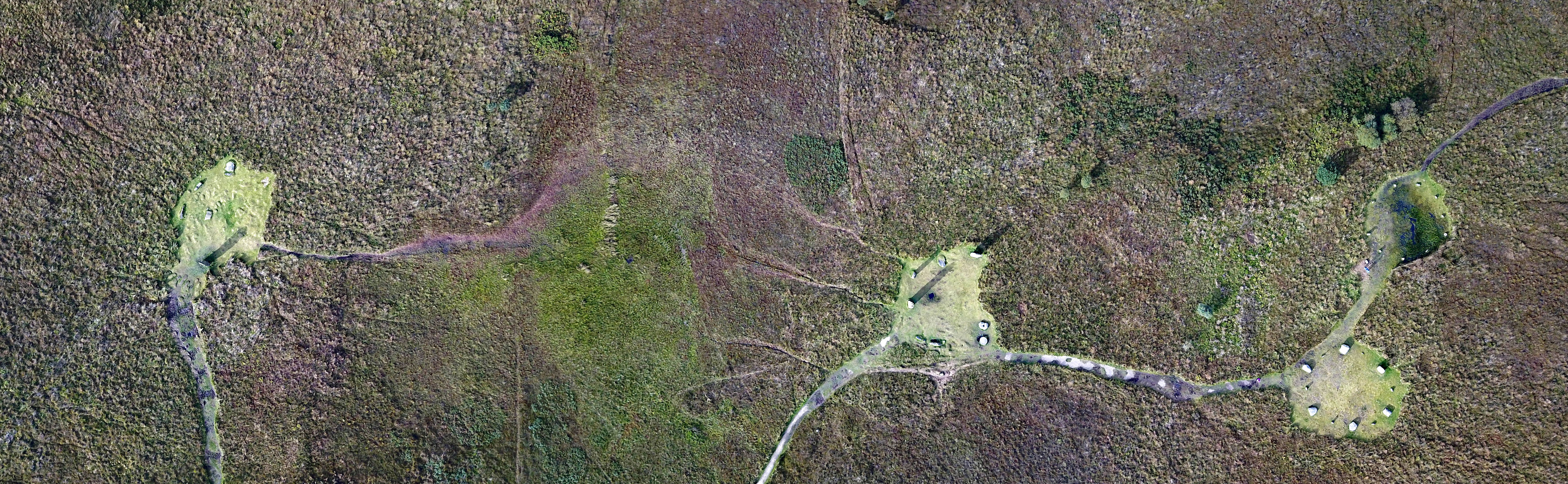 Stone Circles Machrie Moor topview (numbers from left to right: 3, 2, 1, 6)